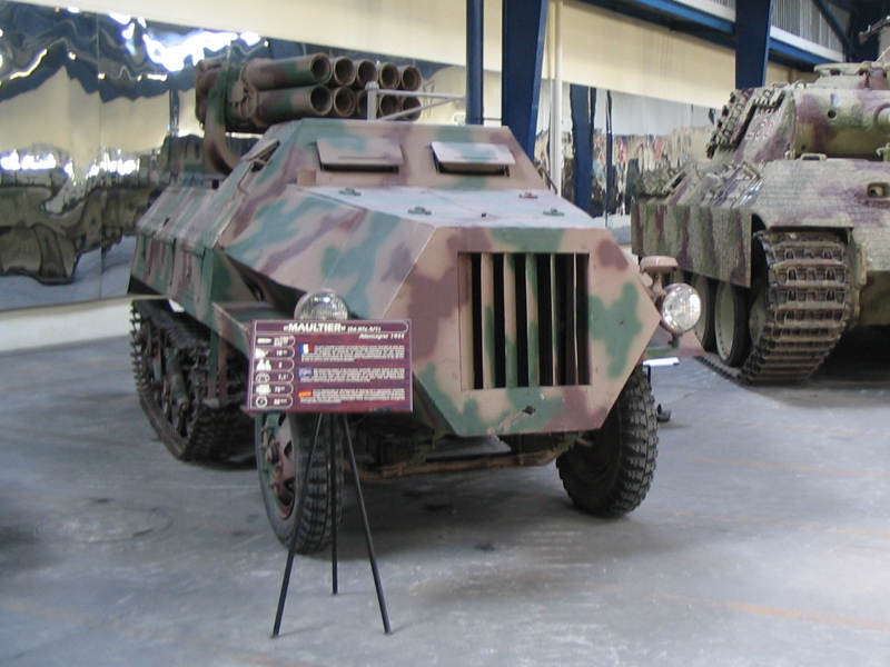 WWII rocket launcher. Photo by Poldi Rijke at The tank Museum at Saumur [1]